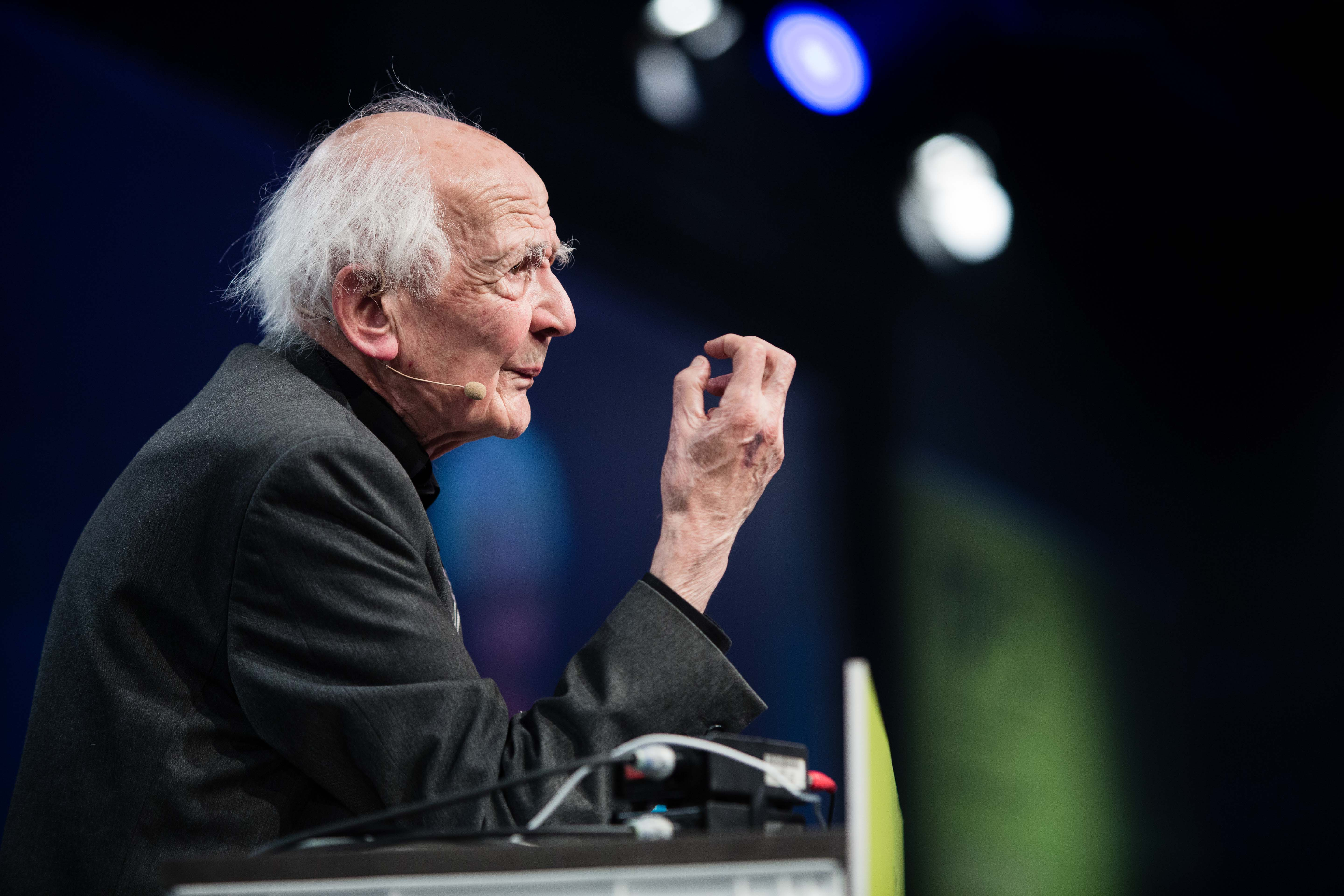 Zygmunt Bauman spricht auf der re:publica 2015 am 07.05.2015 in Berlin. Copyright: re:publica/Jan Zappner